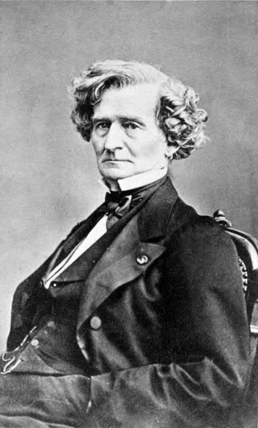 Photo of Hector Berlioz (1803 – 1869)